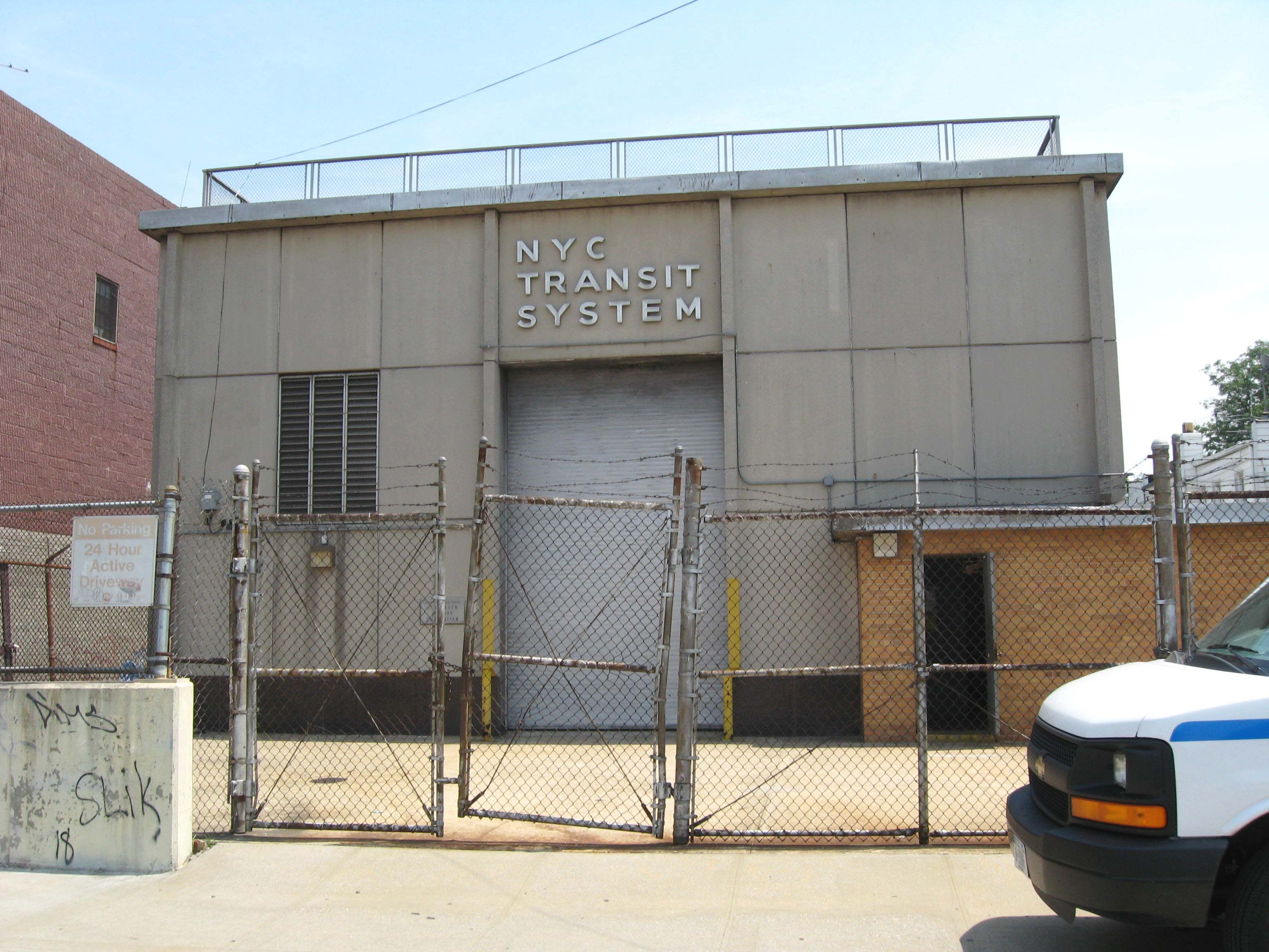 Looking east across 16th Avenue at powerhouse for BMT Sea Beach Line on a sunny midday in middle July 2008. ZIP 11204.